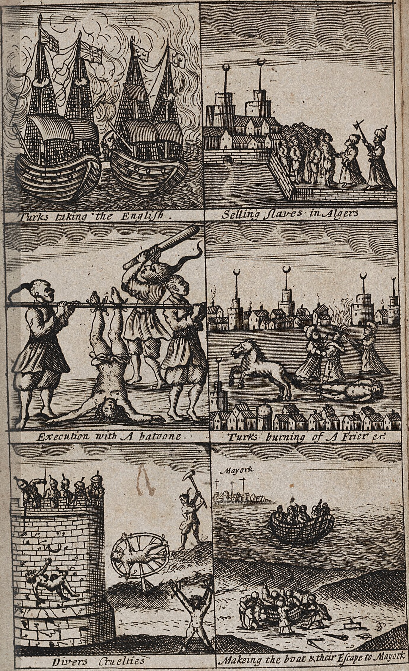 Turks taking the English / Selling slaves in Algiers / Execution with a batoone / Turks burning of a frierer / Divers cruelties / Making their boat & their escape to Mayork Part of Okeley, William Eben-ezer, or, A small monument of great mercy : appearing in miraculous deliverance of William Okeley, John Anthony, William Adams, John Jephs, John ---, carpenter, from the miserable slavery of Algiers ... / by me, William Okeley London : Printed for Nat. Ponder, at the Peacock in Chancery-Lane, near Fleet-Street, 1675